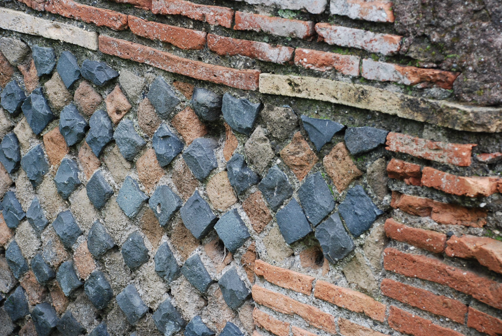 Ostia antica (archaeological site)